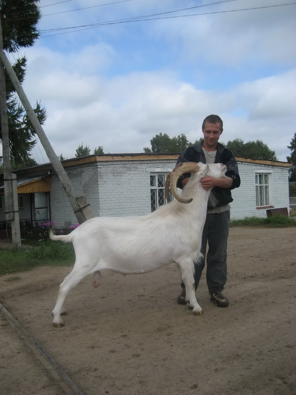 Saanen goat on farm "Lukoz"